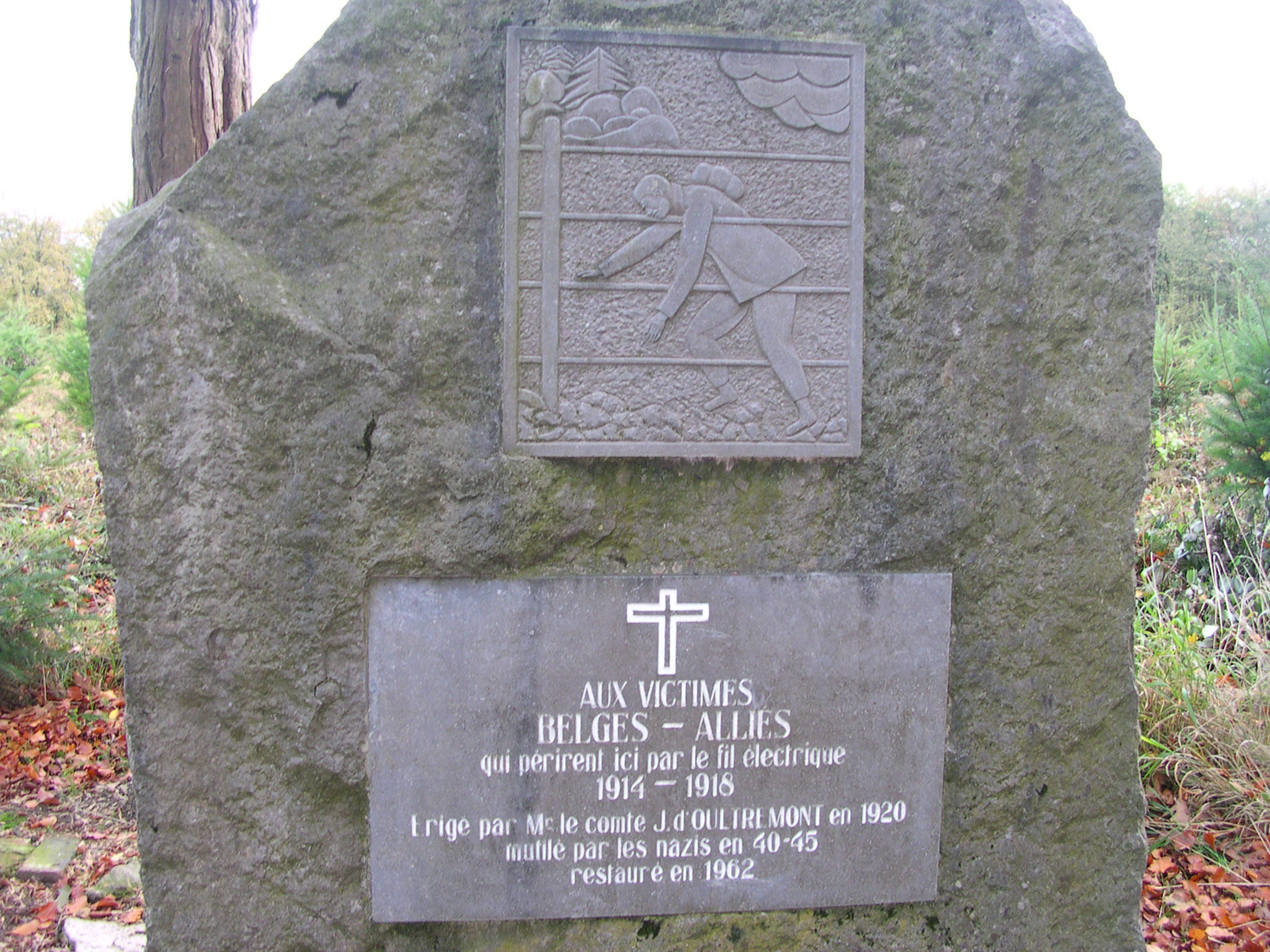 Memorial between Sippenaeken and Teuven for the victims of the wire of death. Text: "To the Belgian - allied victims who perished here by the electric wire 1914-1918. Erected by the Duke J. d'Oultremont 1920. Mutilated by the Nazis 1940-1945. Restored 1962."